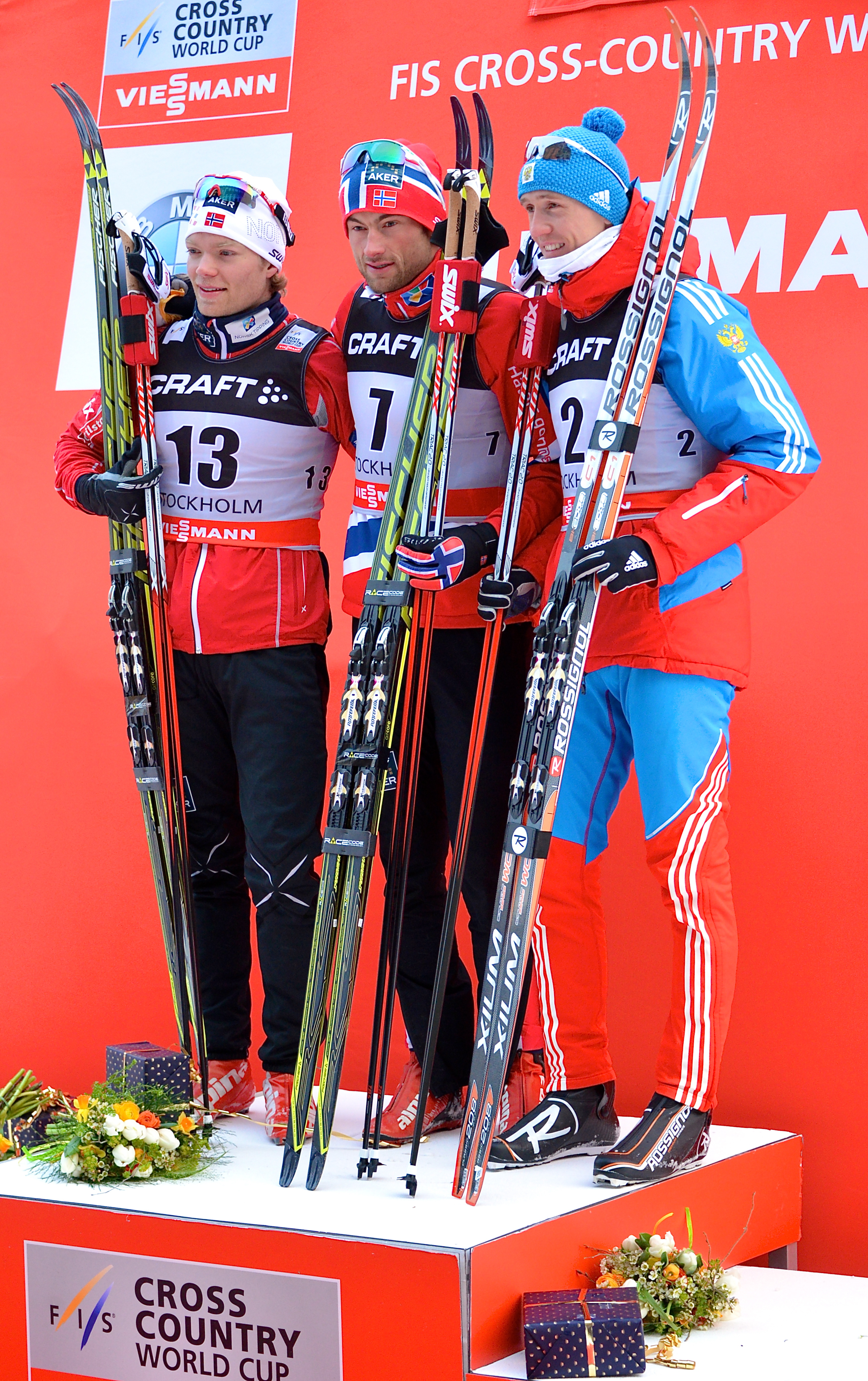 Eirik Brandsdal, Petter Northug och Nikita Kriukov on the podium at the Royal Palace Sprint, part of the FIS World Cup 2012/2013, in Stockholm on March 20, 2013.